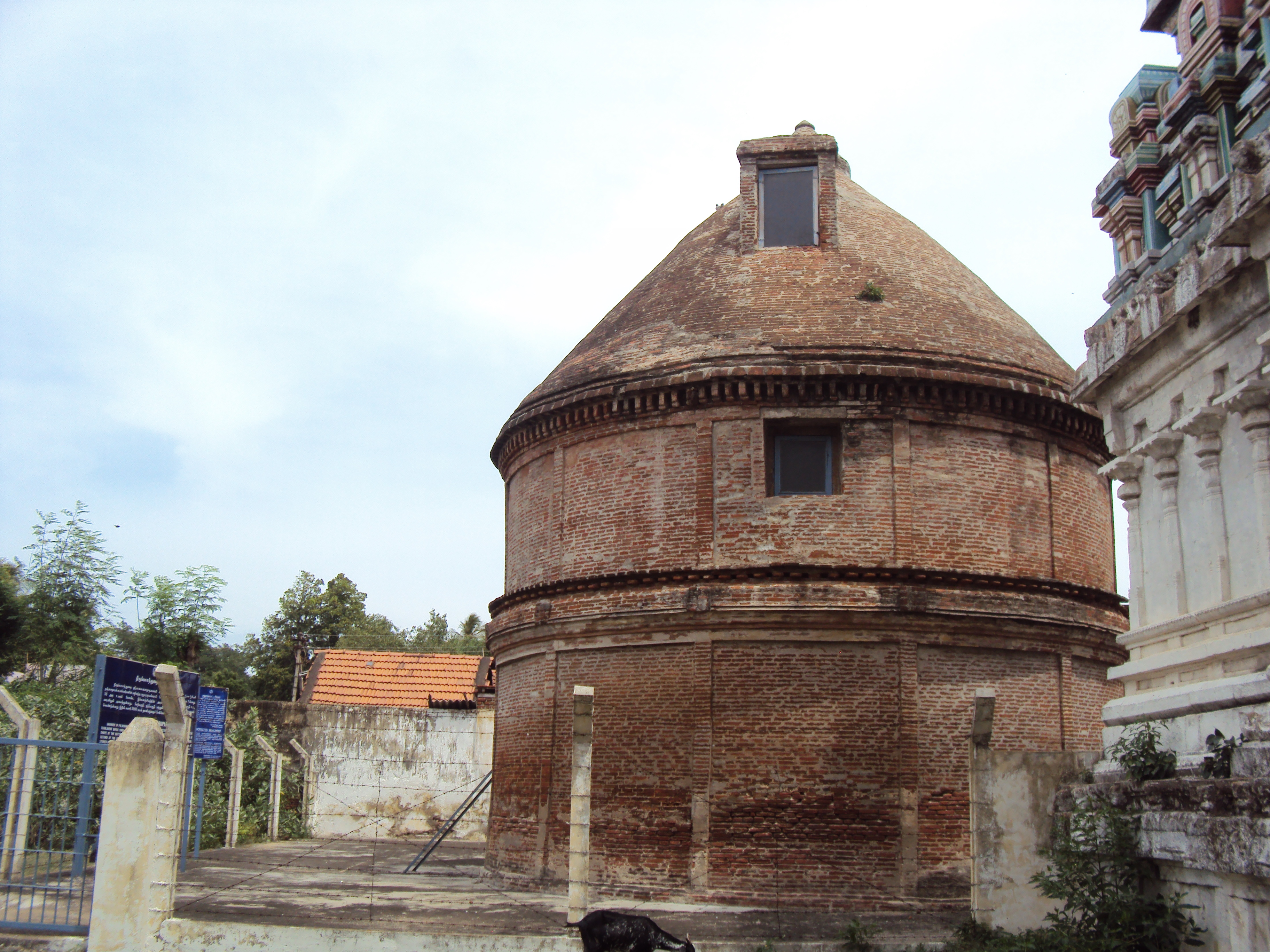 Giant granary